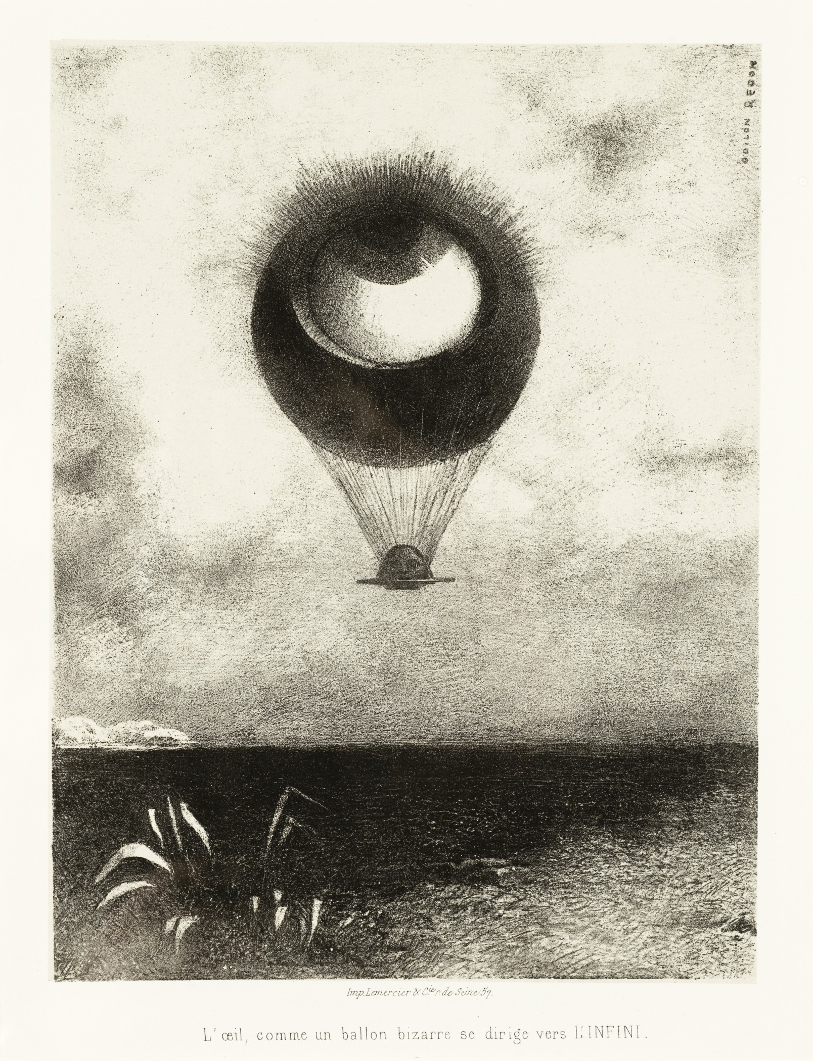 France, 1882 Alternate Title: À Edgar Poe (L'oeil, comme un ballon bizarre se dirige vers l'infini) Series: À Edgar Poe Prints; lithographs Lithograph Wallis Foundation Fund in memory of Hal B. Wallis (AC1997.14.1.1) Prints and Drawings